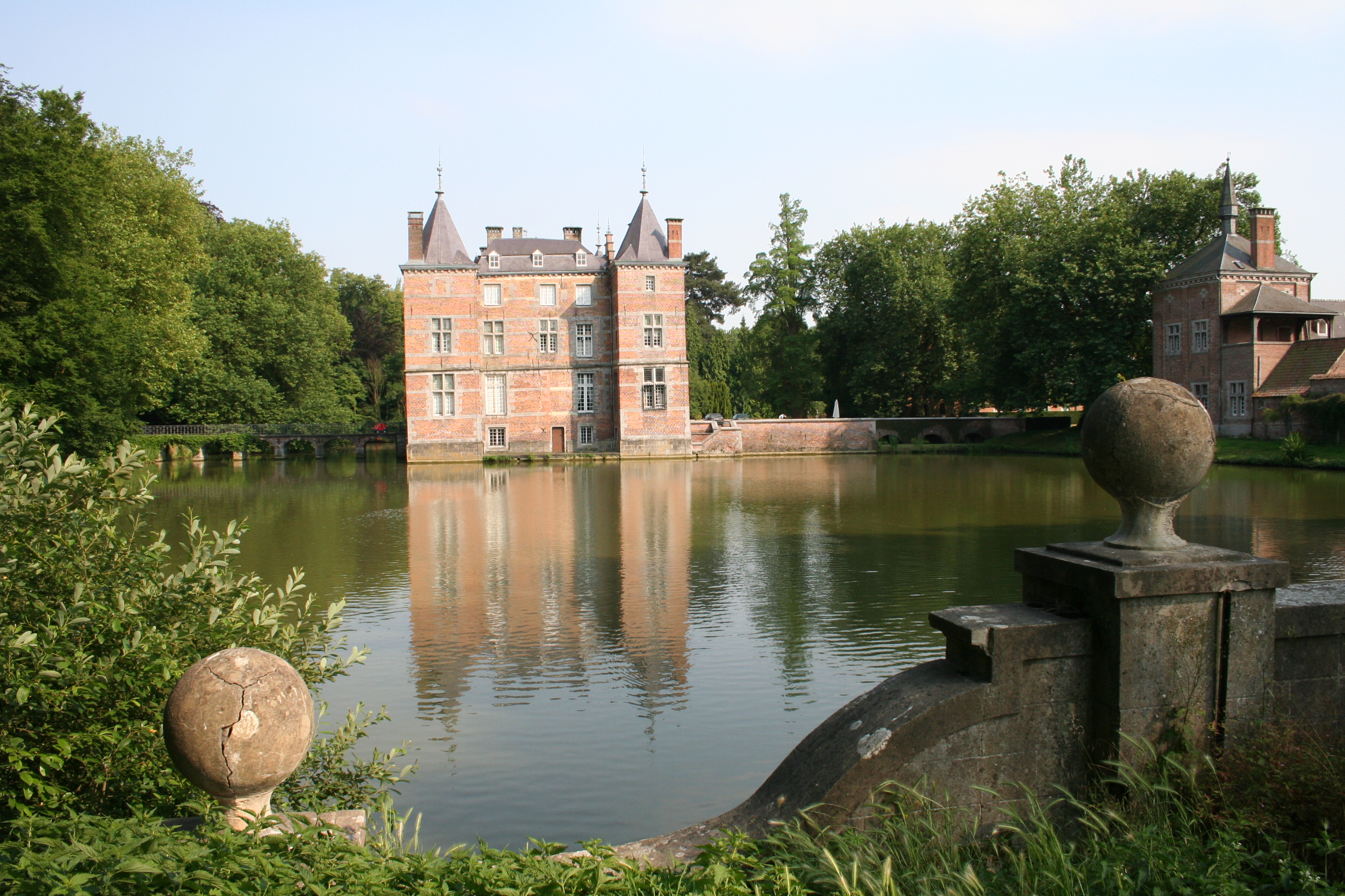 Anvaing (Belgium), the castle (XII-XVIth century).